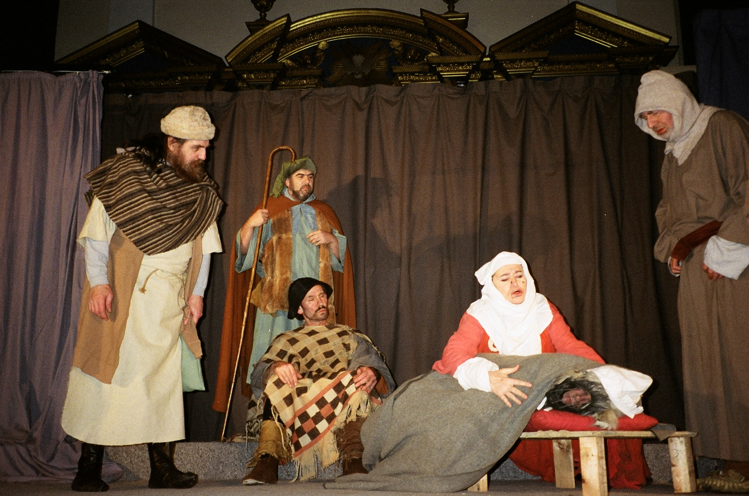 A moment from The Second Shepherds' Play in the Wakefield Mystery Plays as performed by The Players of St Peter in London in 2005. The shepherds are realising that the baby in the cradle is in fact one of their sheep. Daw says: "Give me leave him to kiss and lift up the clowt [cloth]. What the devil is this? He has a long snout." (Original script line 584). From left to right: Roger W Haworth (Gib), Mike Waring (Daw), Oliver Clement (seated, Mak), Carrolle Jamieson (Gill), Eve Haughton (in cradle, Sheep), Nick Carter (Coll).